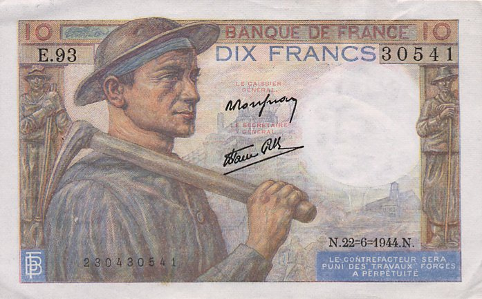 10 Francs 1930th - 1944 averse